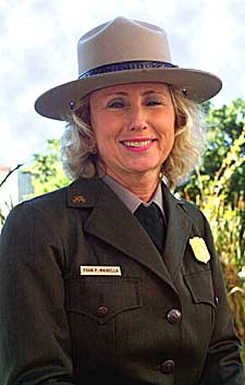 Fran P. Mainella, former Director of the National Park Service.